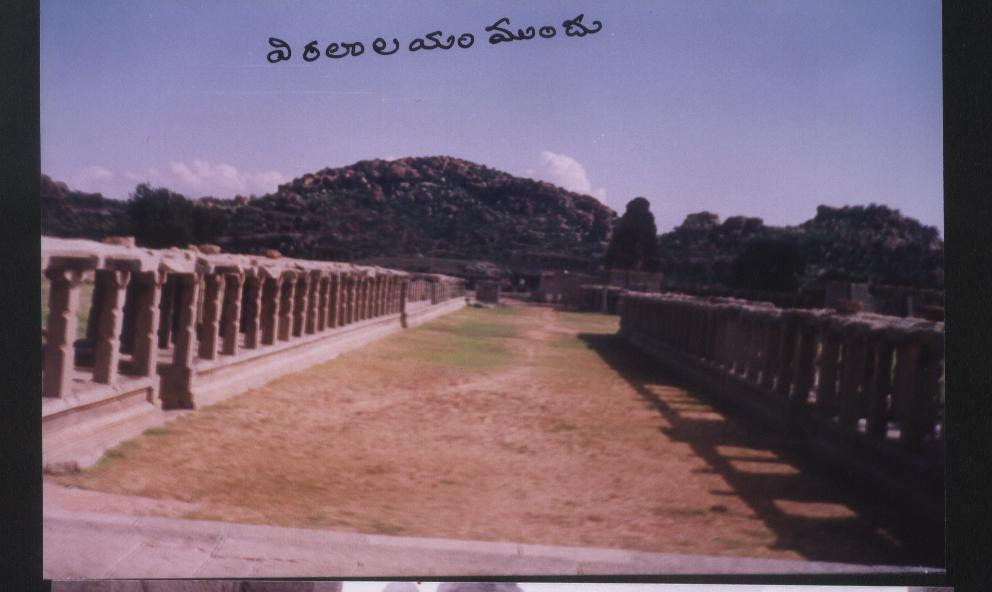 This is a structure in front of the famous temple of Vittal at Hampi in karnataka stte of India a world heritage center.